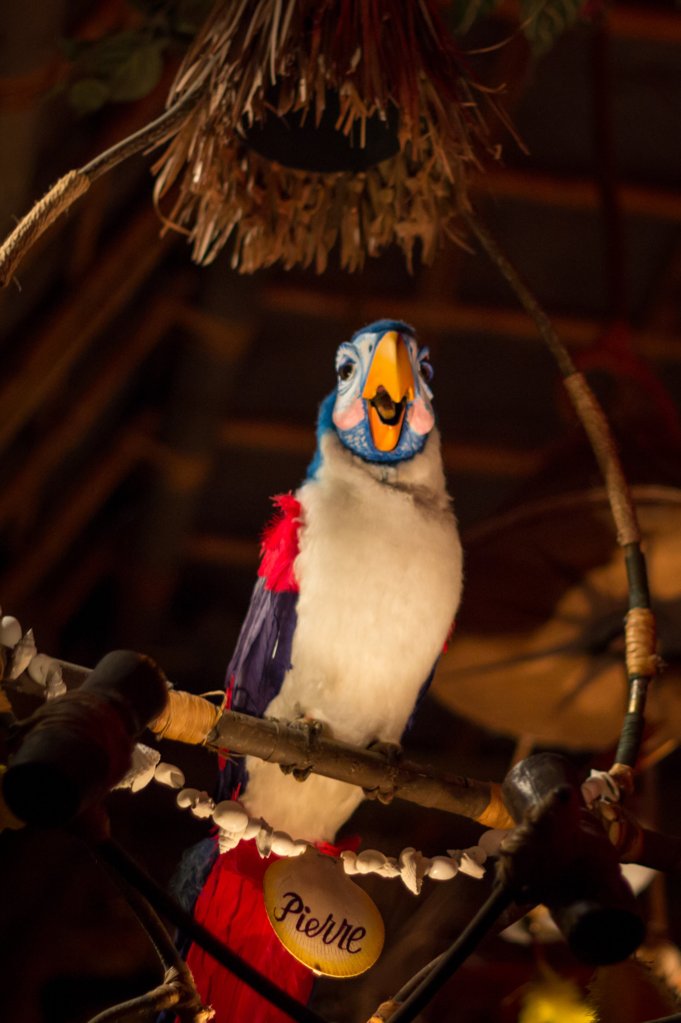 The always awesome Enchanted Tiki Room in Adventureland at Disneyland.